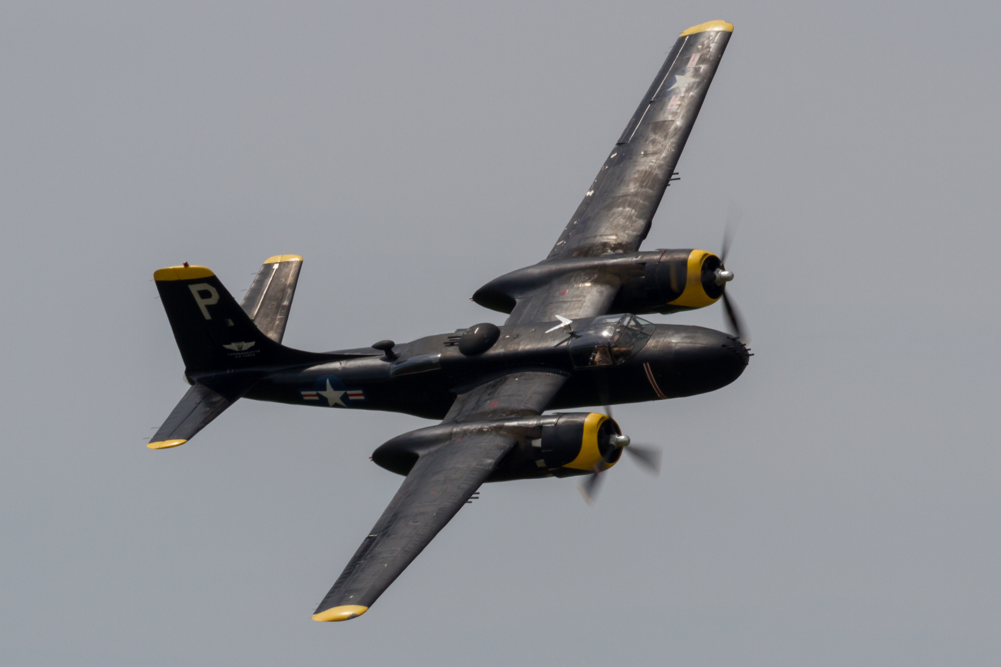 An A-26 Invader at the NAS Ft Worth Air Show in 2016.